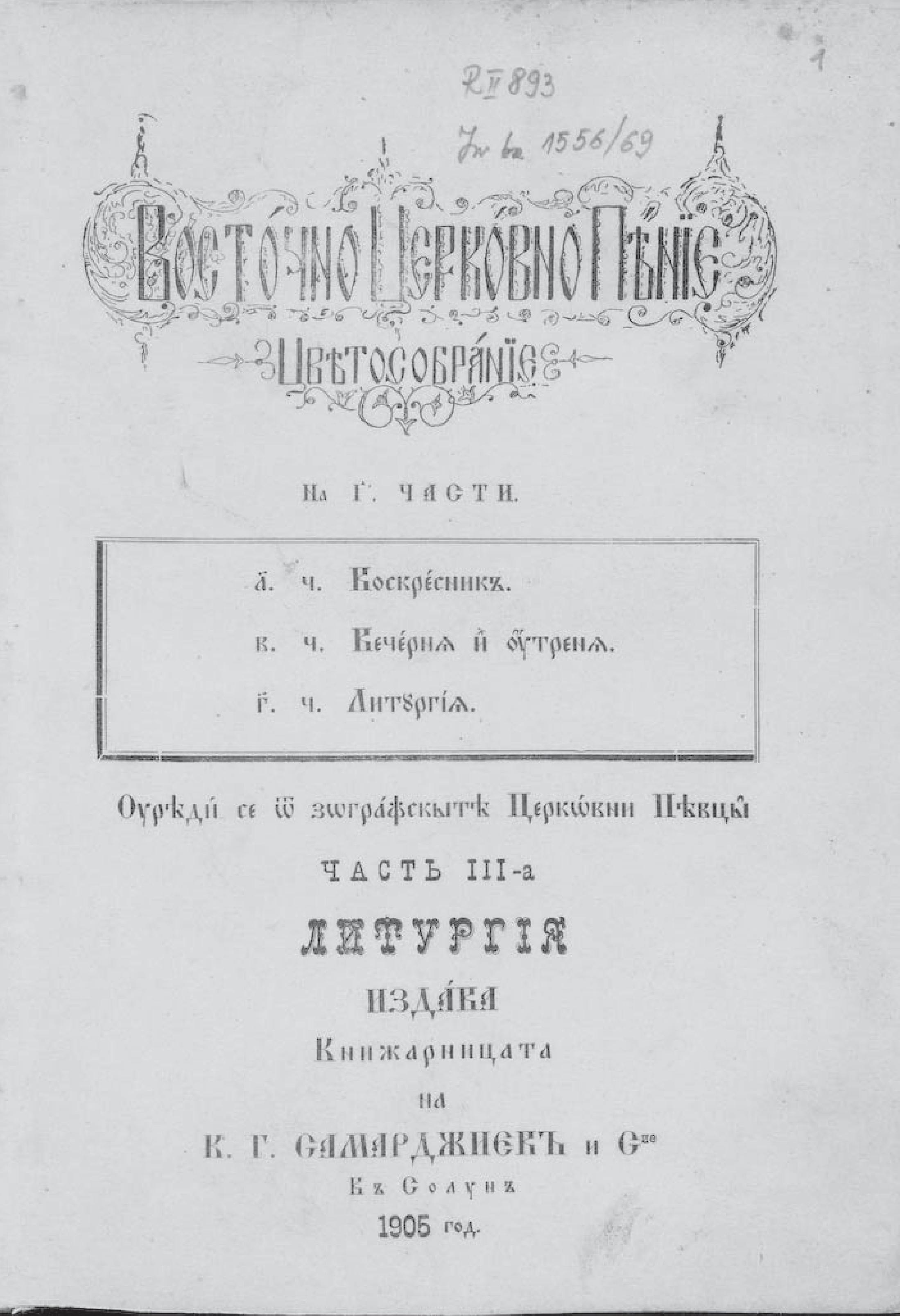 Vostochno Tserkovno Peene 3